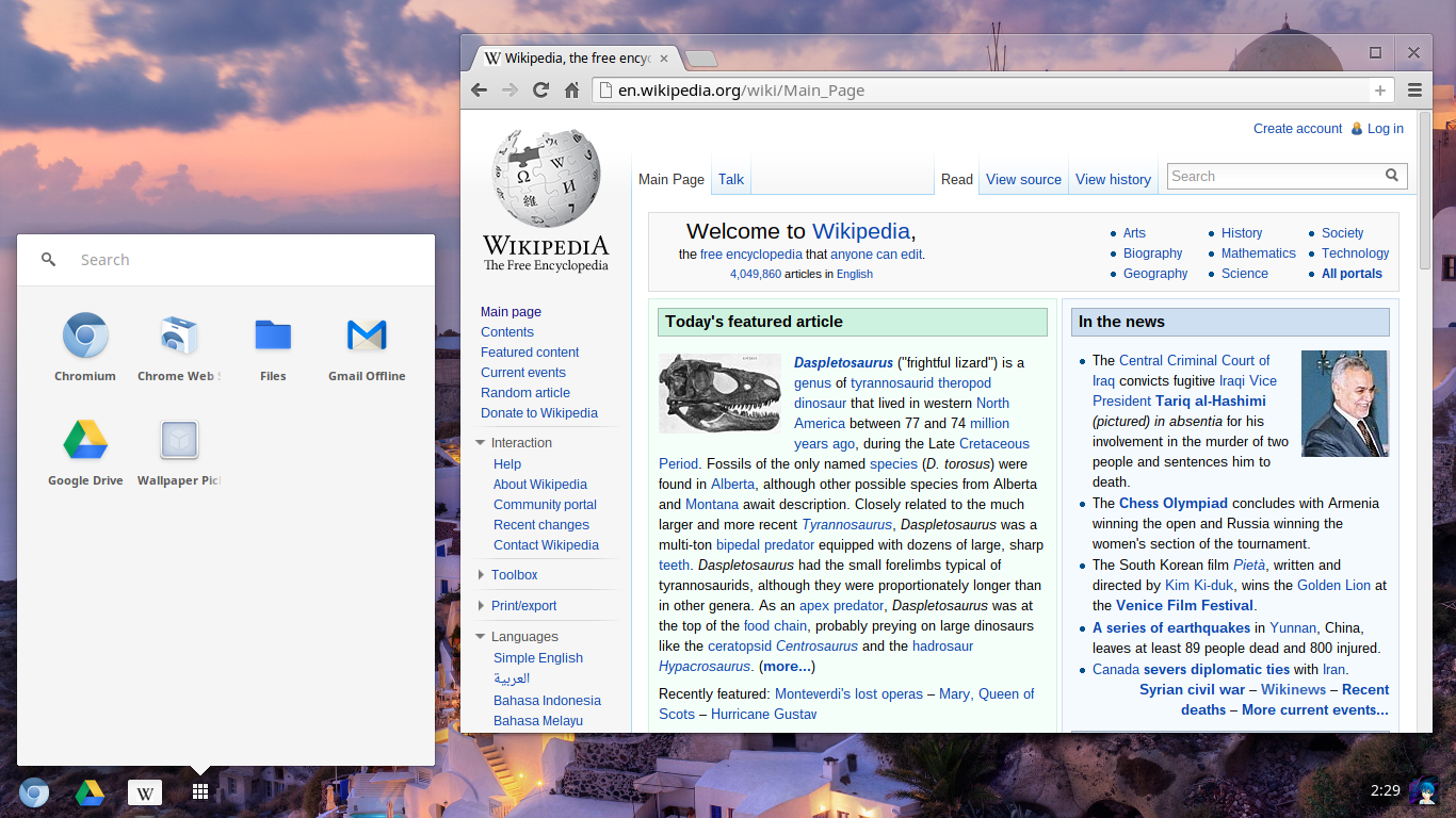 Screenshot of the latest Chrome OS updates, including web browser and app drawer.